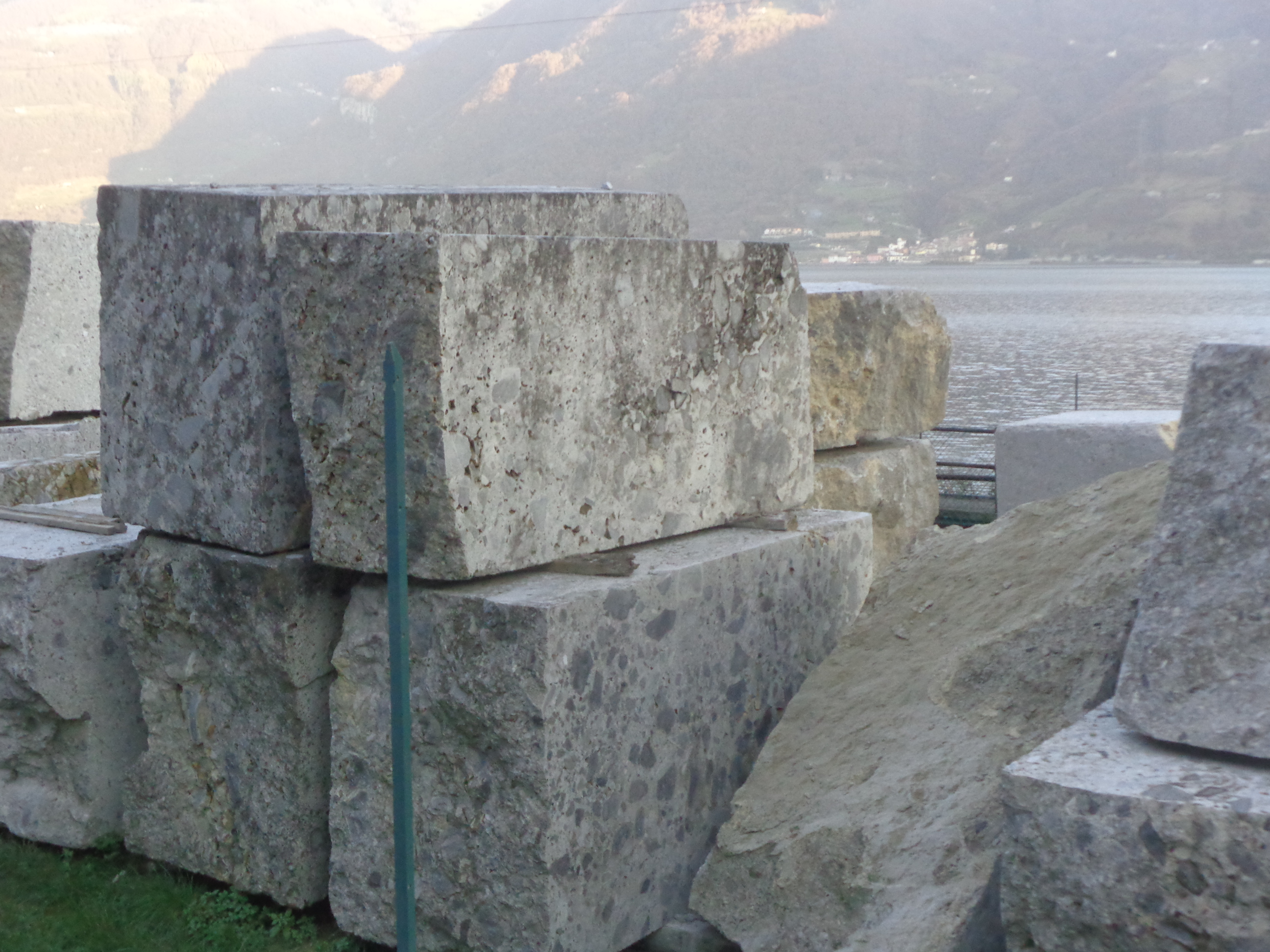 ceppo di Gré, a natural stone for Architecture and Design, Lake Iseo, Italy